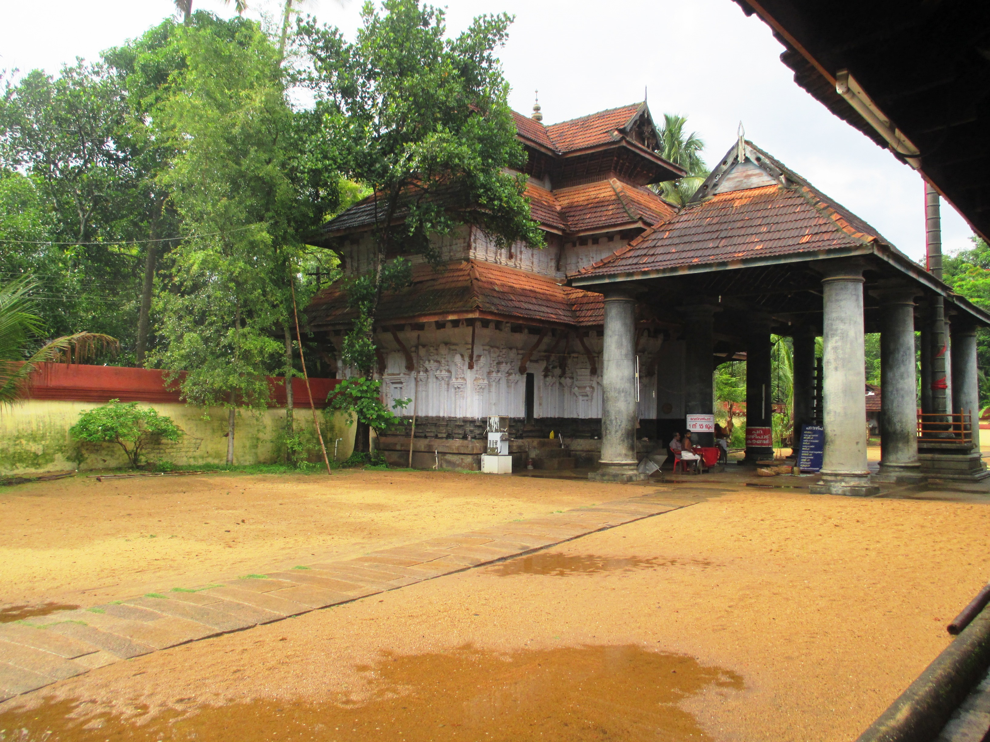 Thiruvanchikkulam Sivatemple